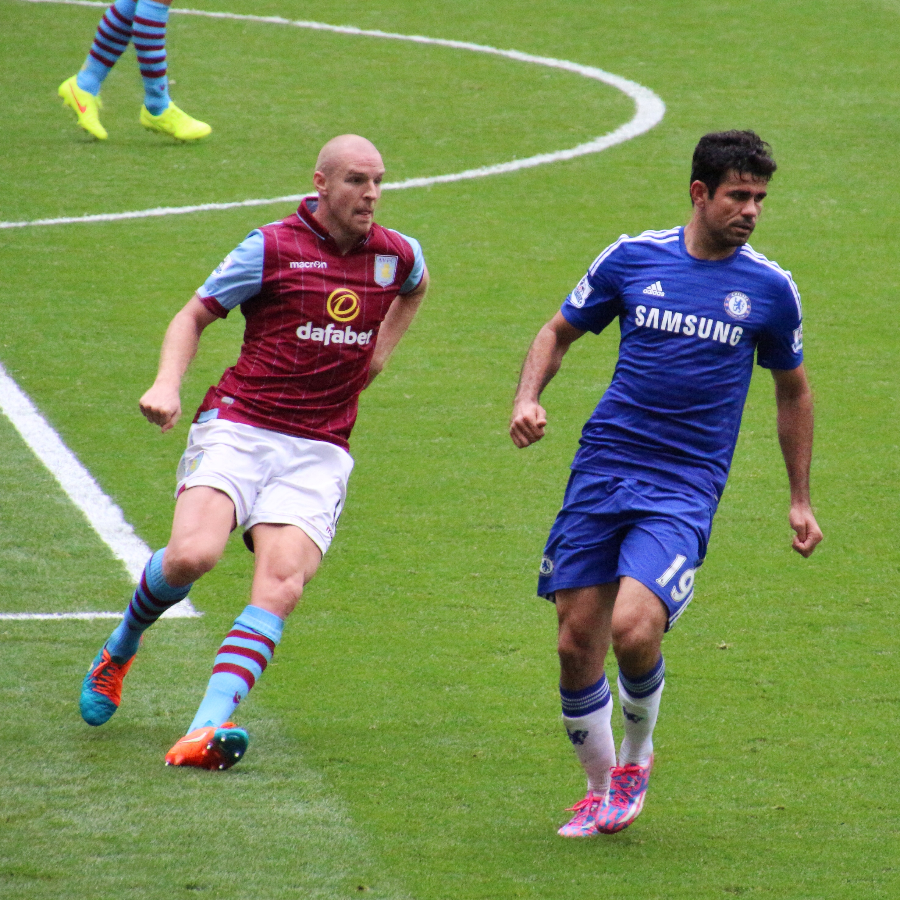 Chelsea 3 Aston Villa 0 Premier League match between Chelsea and Aston Villa at Stamford Bridge on 27 September 2014.